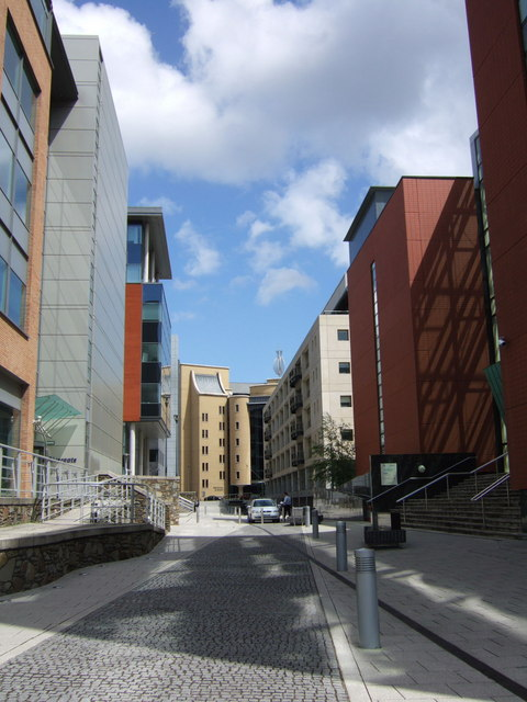 Rivergate, Bristol A new street of offices in the Temple Quay development area beside Temple Meads station in Bristol. This street follows the line of the Port Wall.